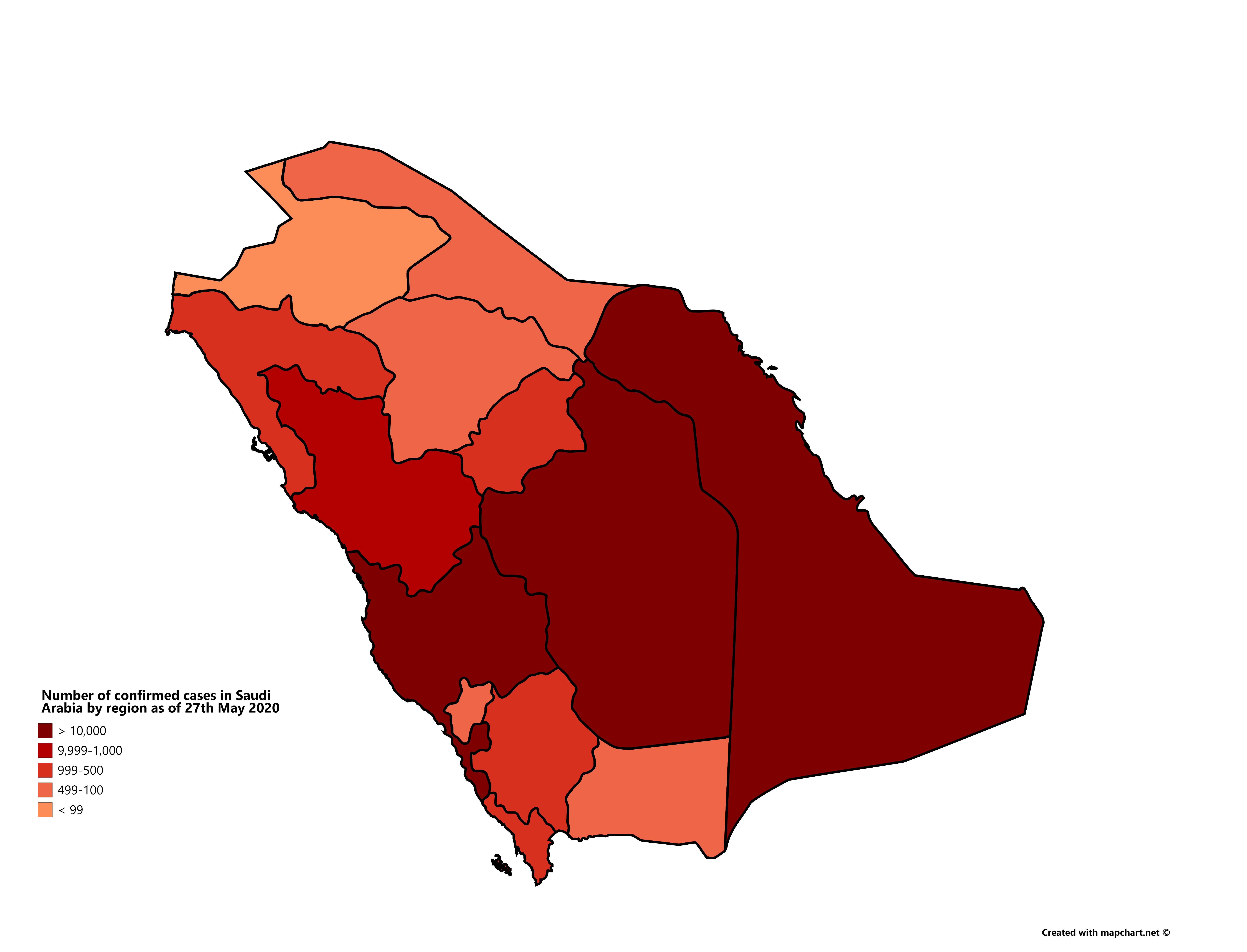 Number of confirmed cases of COVID-19 in Saudi Arabia by region as of 27th May 2020